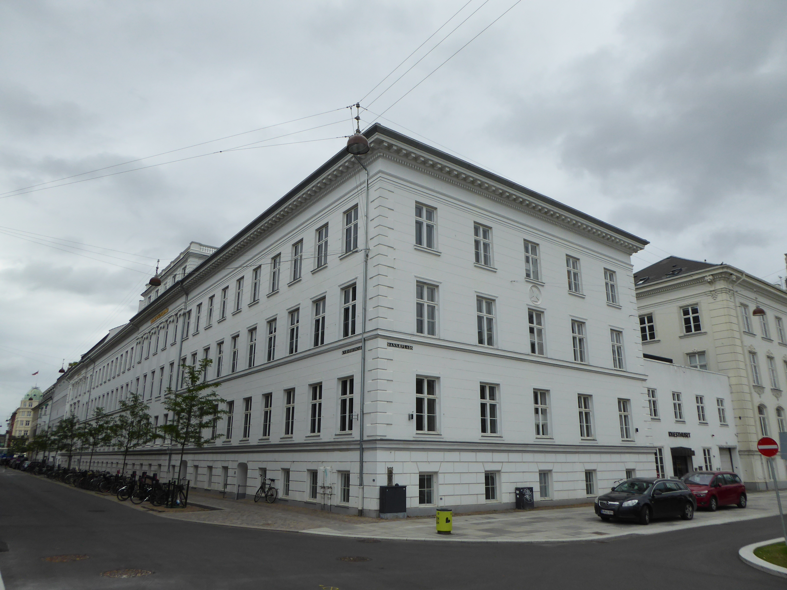 The head office of Dansk Sygeplejeråd at the corner of Kvæsthusgade and Sankt Annæ Plads in Indre By in Copenhagen.